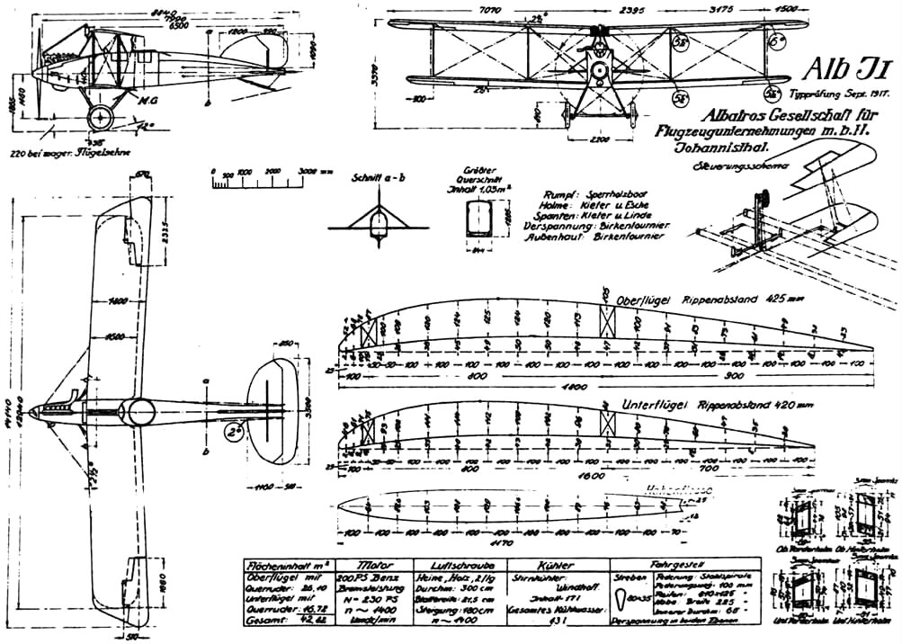 Albatros J.I German World War 1 ground attack aircraft